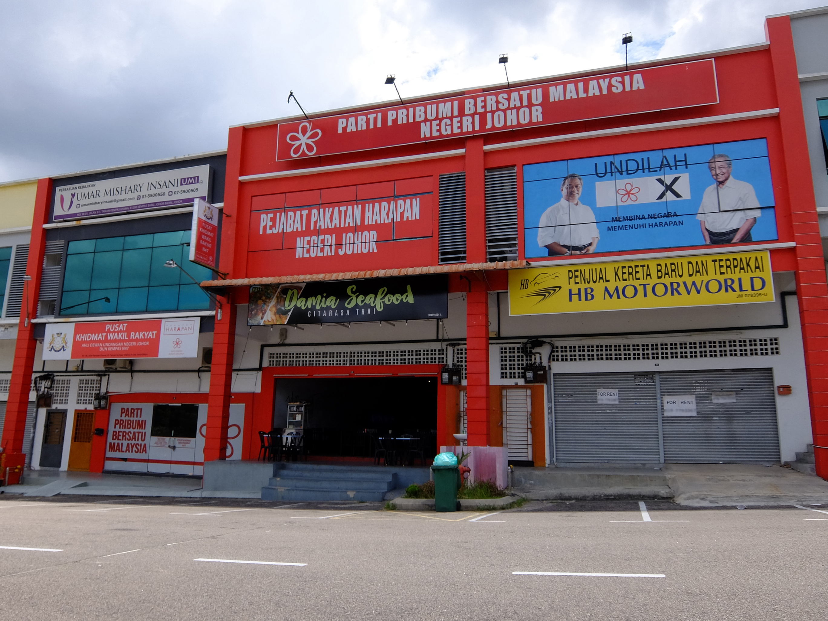 Malaysian United Indigenous Party, Kempas, Johor Bahru, Johor, Malaysia